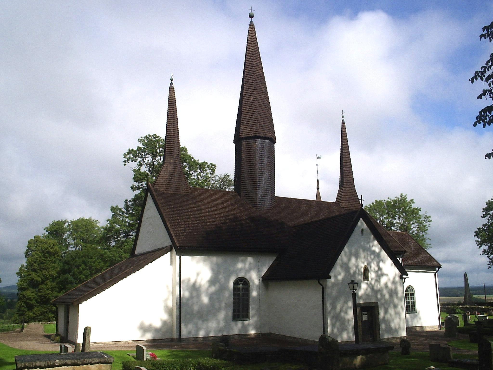 Kungslena Church, Tidaholm Municipality, Sweden.